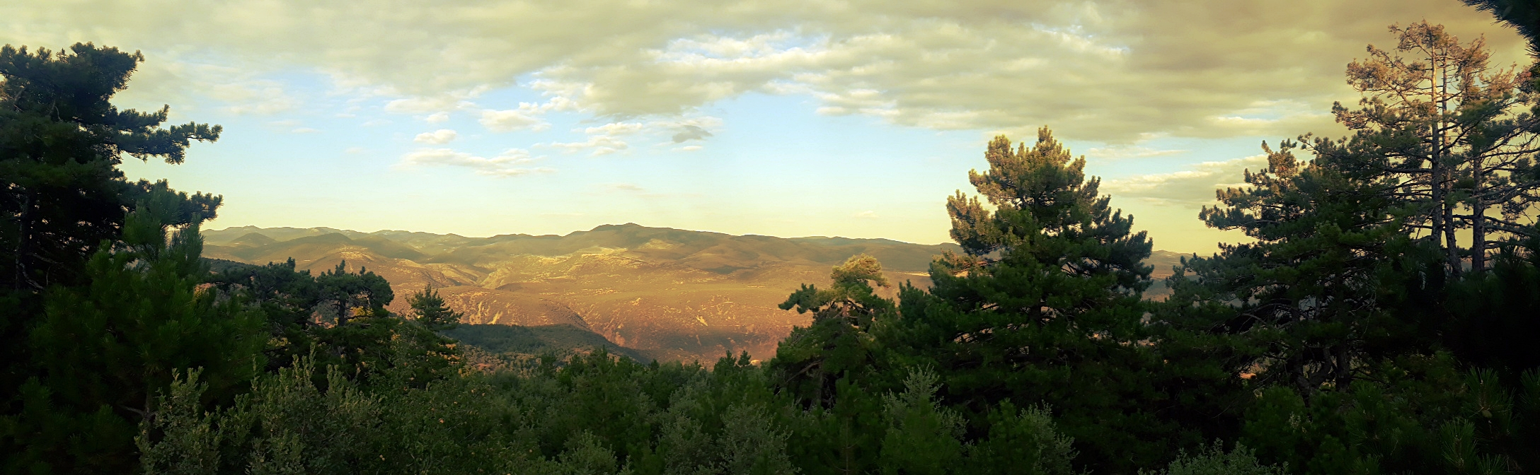 Soğuksu National Park